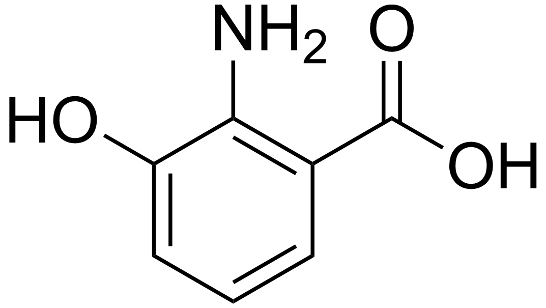 chemical structure of 3-Hydroxyanthranilic acid